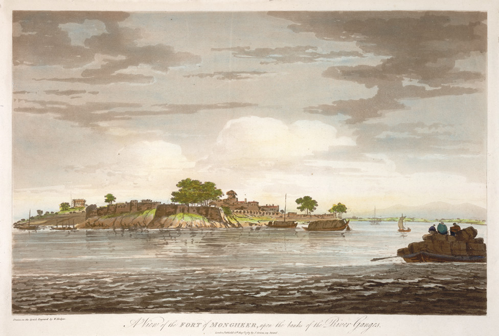 A View of the Fort of Mongheer, upon the banks of the River Ganges